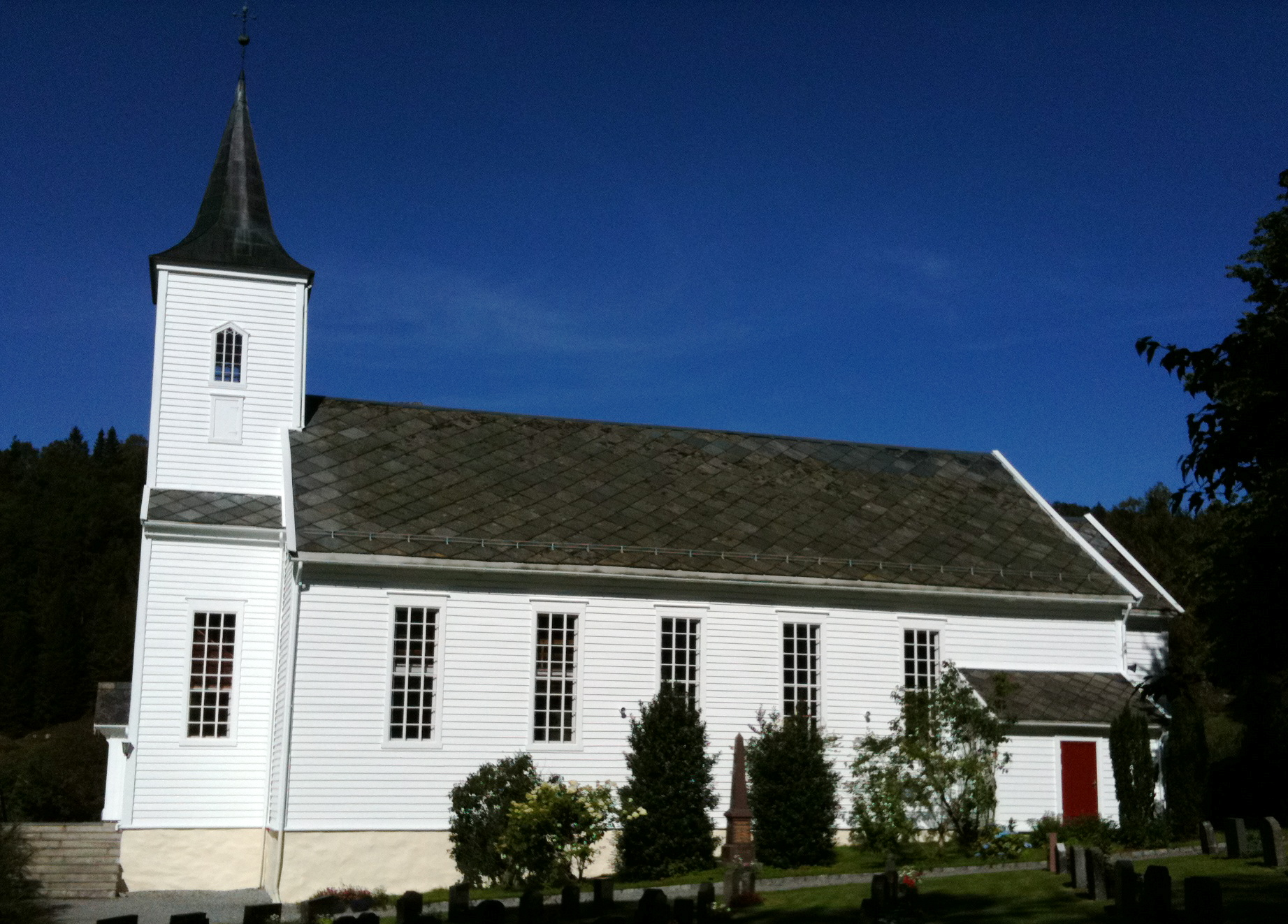 Meland kirke in the municipality of Meland, Hordaland, Norway